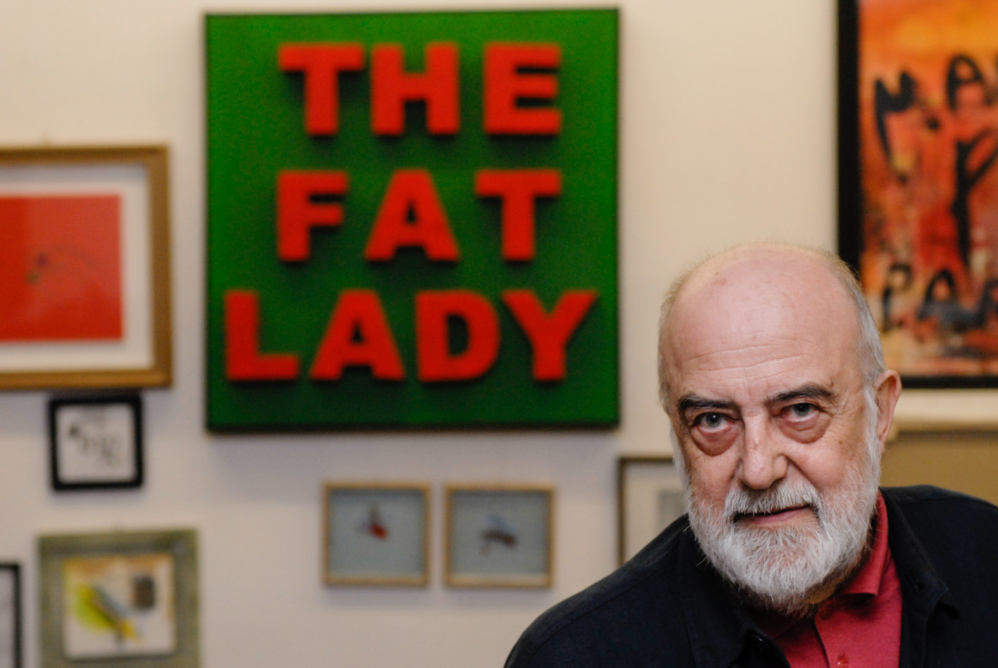 Italian artist Ugo Carrega photographed in his studio in Milan in May 2010 by Ivo Corrà (